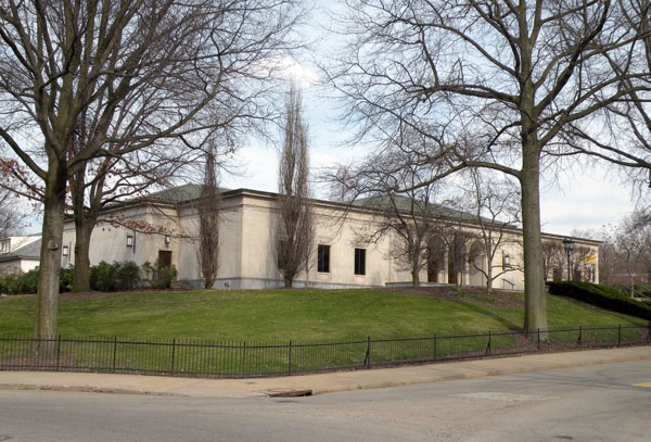 Picture of The Frick Art Museum, part of the Frick Art & Historical Center at "Clayton" in the Point Breeze neighborhood of Pittsburgh, Pennsylvania, on March 21, 2010. The museum is located near the corner of Reynolds Street and S. Homewood Avenue.